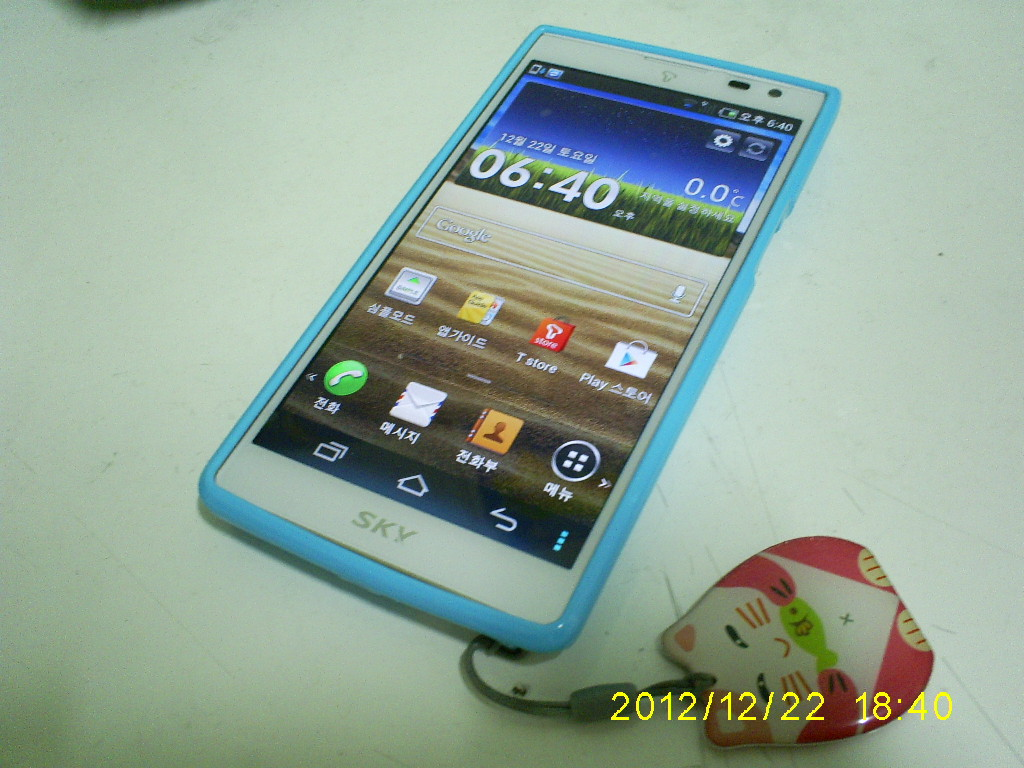 Model Number : IM-A840S